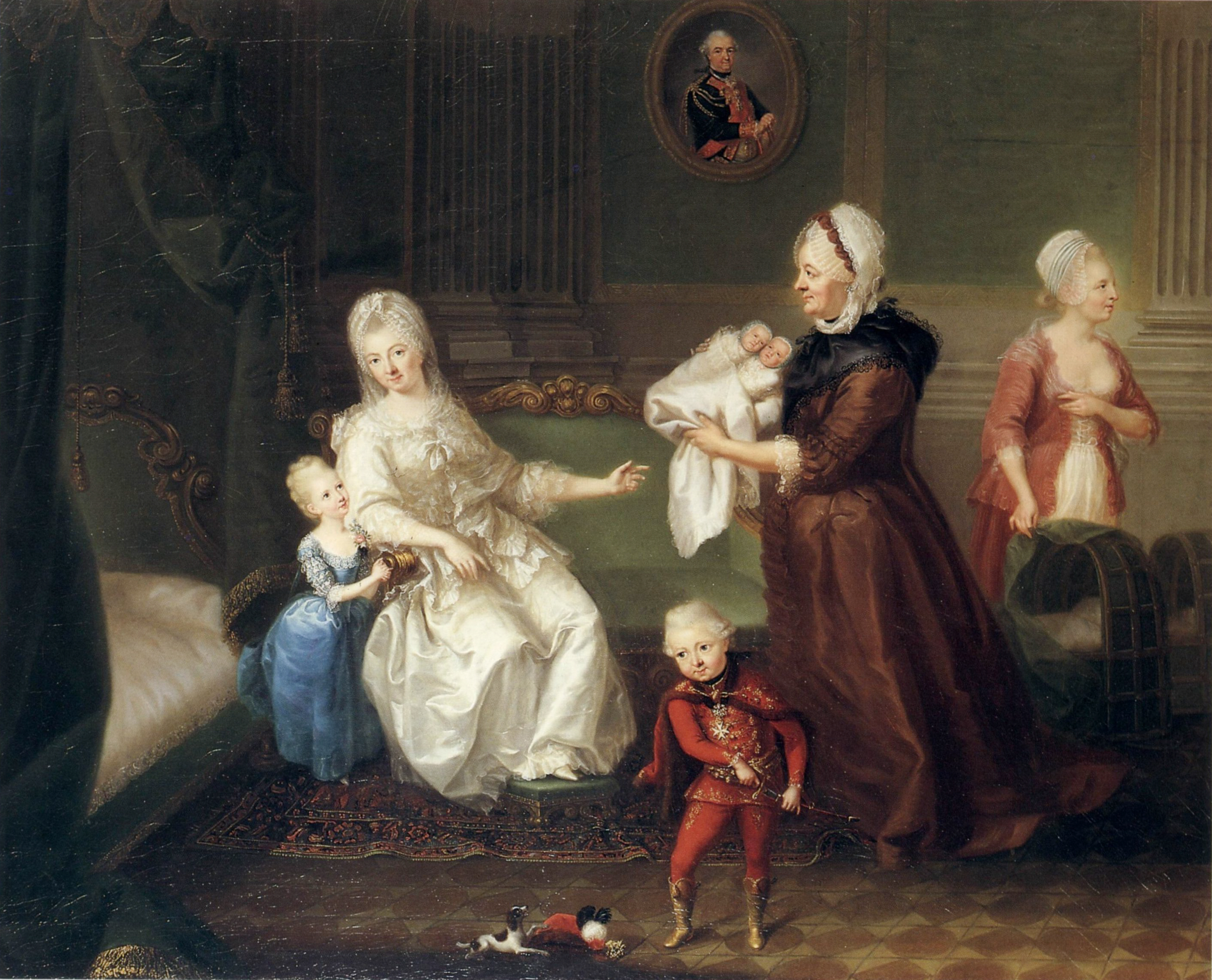 The painting is historically inaccurate since the mother of the twins (* 1771) died shortly after the birth from puerperal fever. It is also improbable that the mistress of a prince-elector would bear her children in a "chambre verte", the room for childbirth traditionally reserved for the higher ranks of nobility.